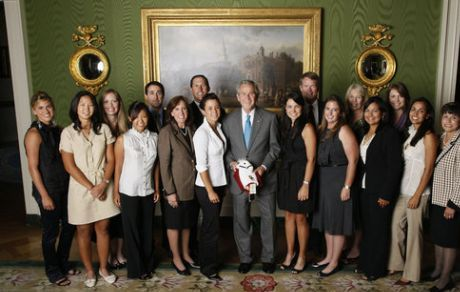 Dewi-Claire Schreefel at the Oval Office, standing next to president Bush, in the white jacket